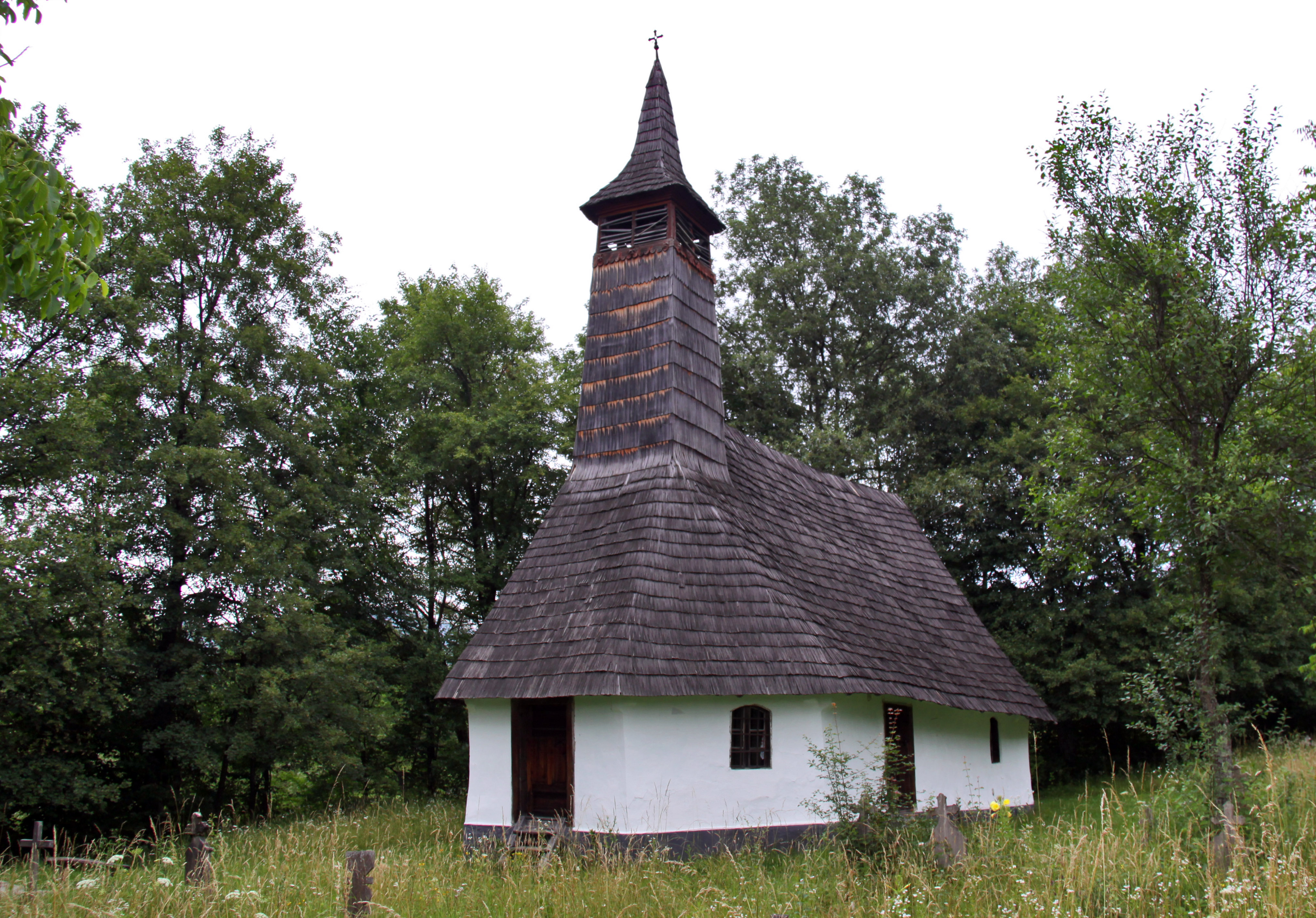 Zam, Hunedoara county, Romania: the wooden church, South-West.